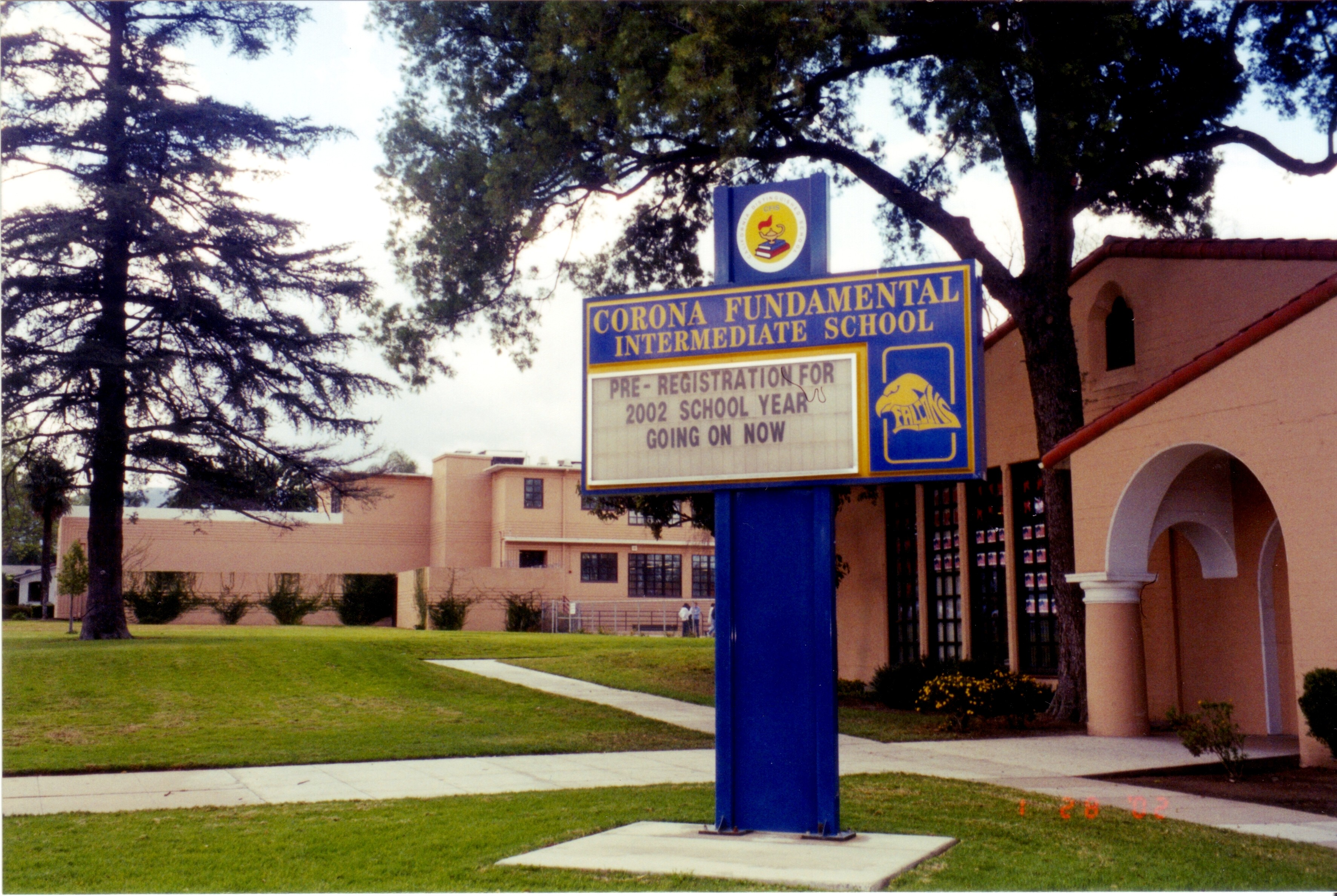 Corona Fundamental Intermediate School's (formerly Corona Junior High School) letter board sign. View from South Main Street, looking southwest.